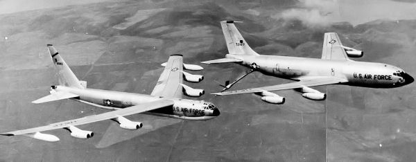 Boeing B-52D-70-BO (S/N 56-0582) is refueled by Boeing KC-135A-BN (S/N 55-3127).